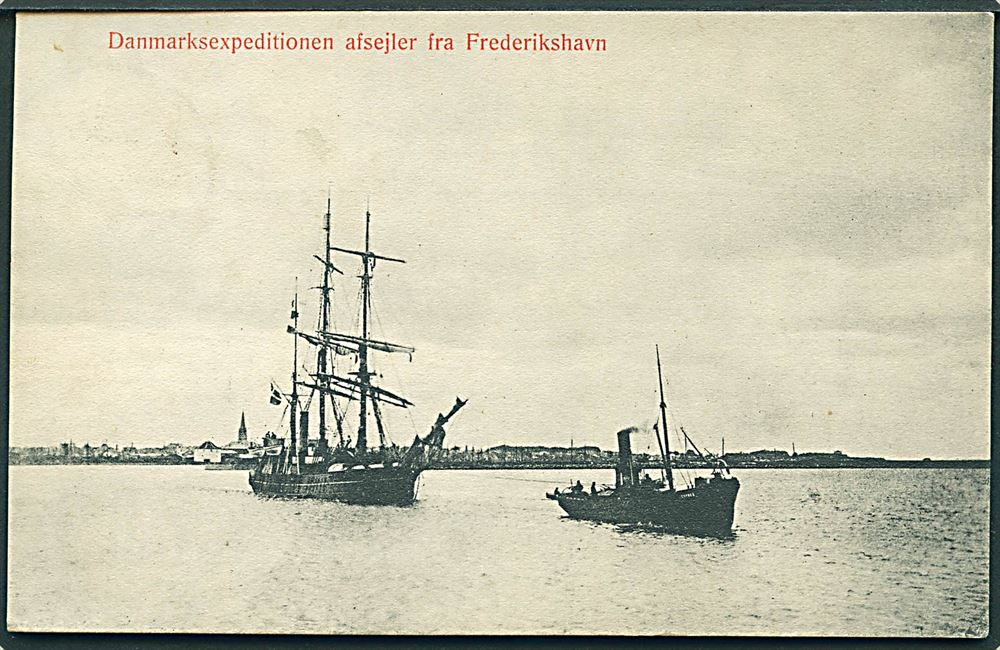 Danish expedition ship "Danmark" (former Norwegian sealer "Magdalena") leaving Frederikshavn on 22-7-1906 for the Danmark expedition to NE Greenland, under the lead of Mylius-Erichsen.